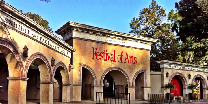 Entry to the Festival of the Arts and Pageant of the Masters in Laguna Beach, California